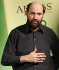 Martin Fowler on QCon 2007 conference. Crop from original photo.